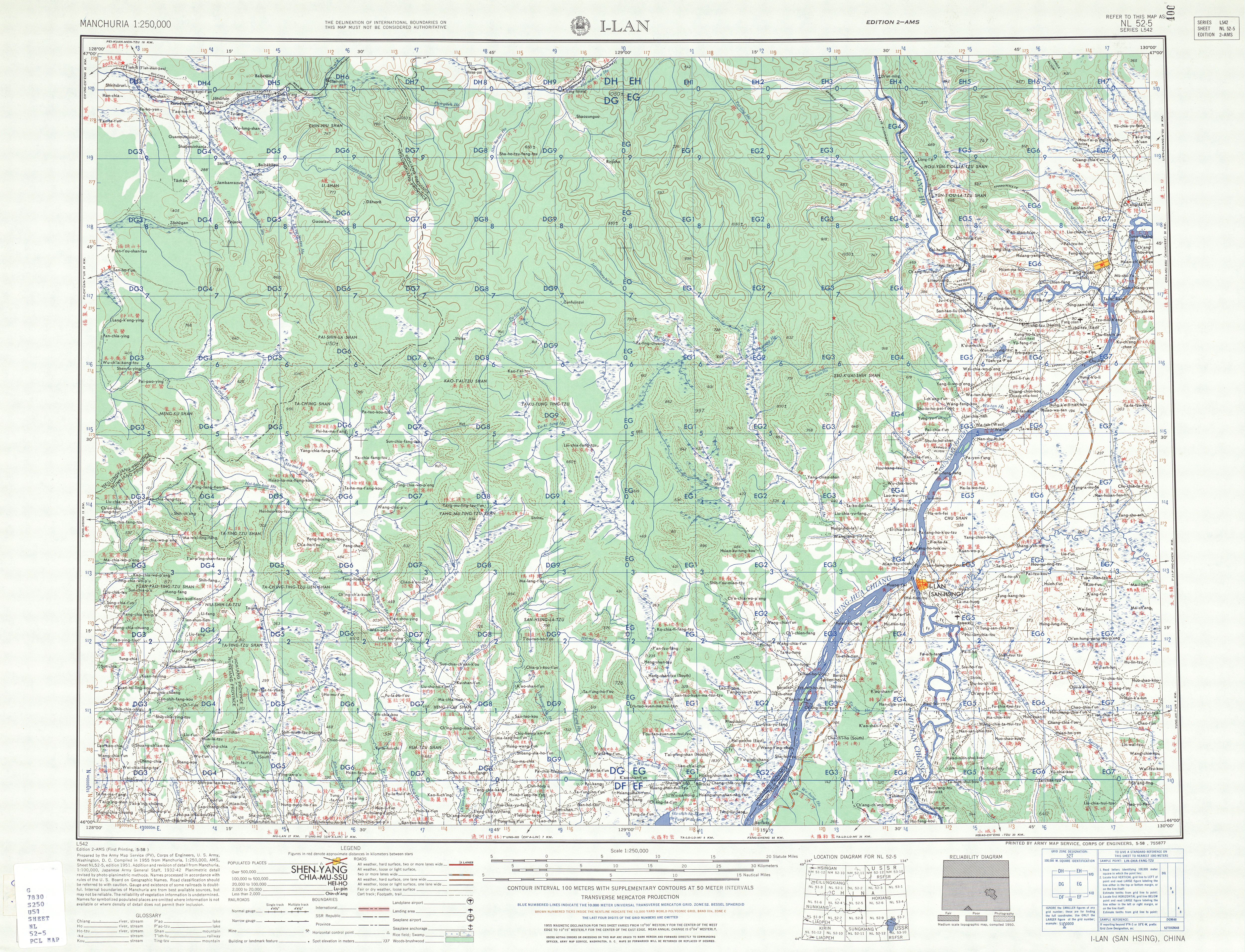 Manchuria AMS Topographic Maps